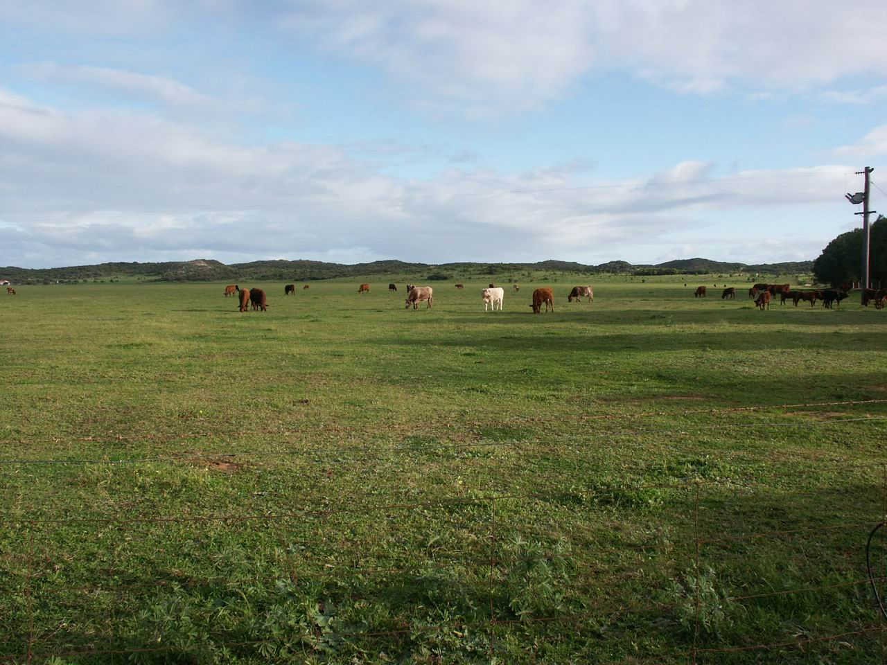 Green fields of Greenough, Western Australia.